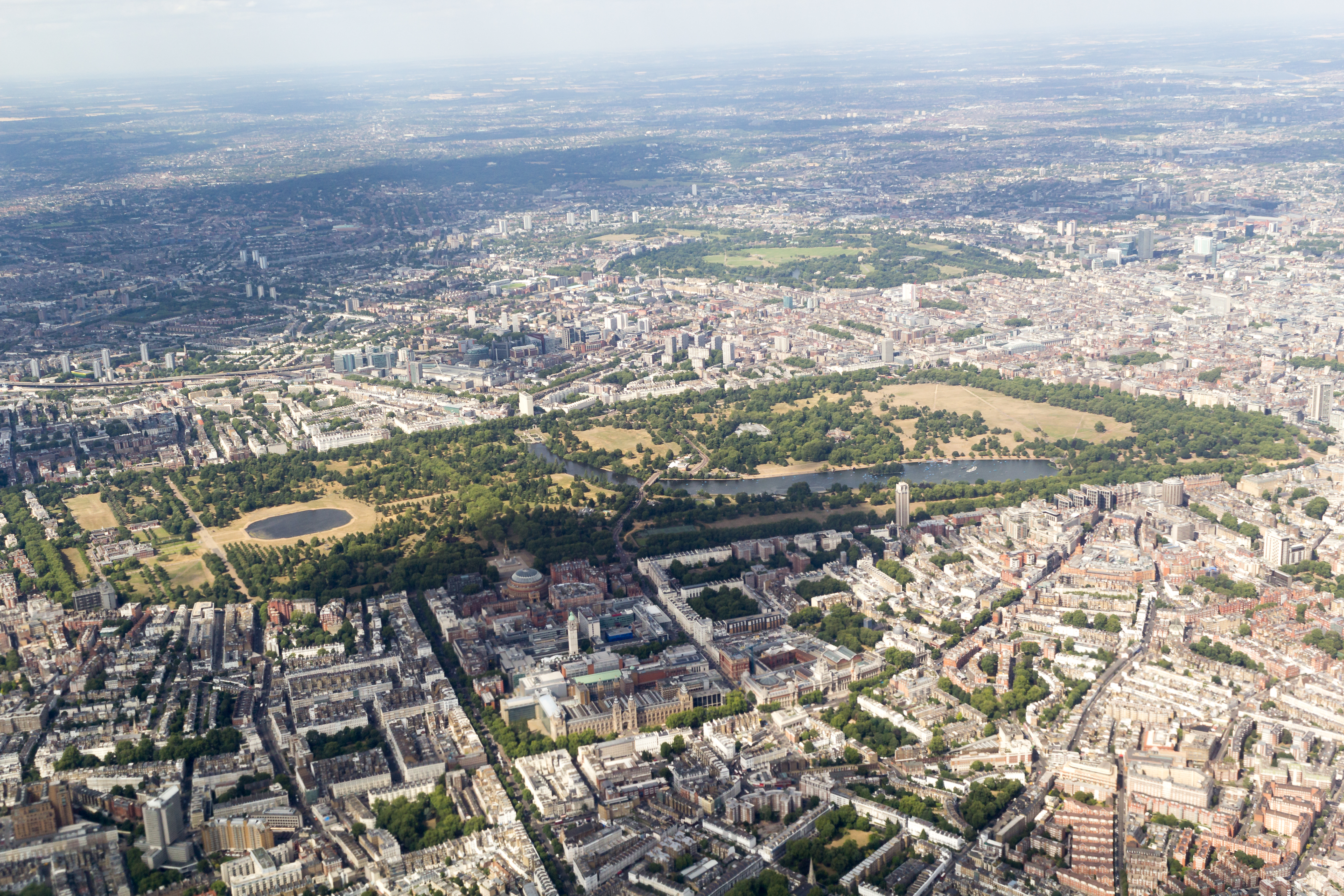 Aerial photograph of London taken on a Boeing 787-8 Dreamliner registration N967AM on approach to London Heathrow Airport (LHR/EGLL). Hyde Park and Kensington Gardens are visible in the central foreground